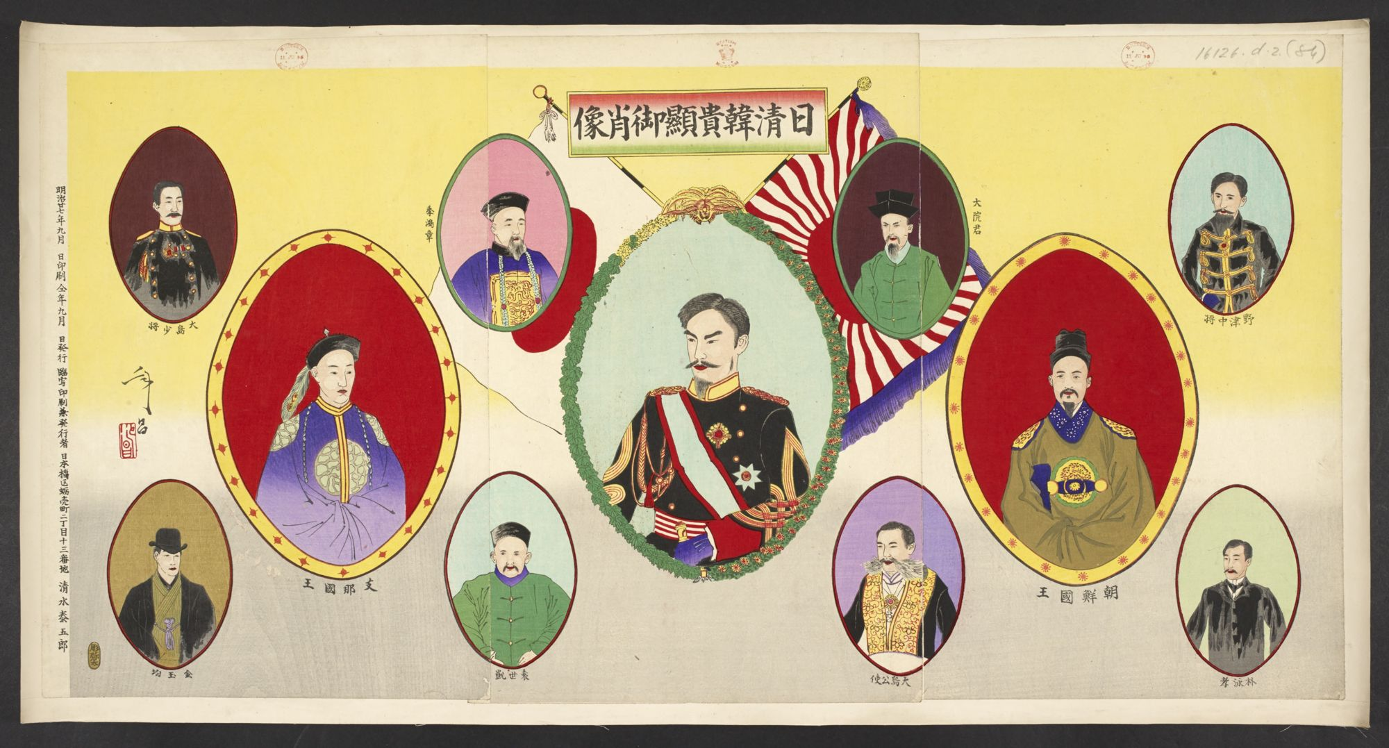 Lieutenant General Nozu, Pak Yung-hio, Gojong of Korea, Heungseon Daewongun, Minister Ōtori, Emperor Meiji (No notation), Li Hongzhang, Yuan Shikai, Guangxu Emperor, Major general Ōshima , Kim Ok-gyun